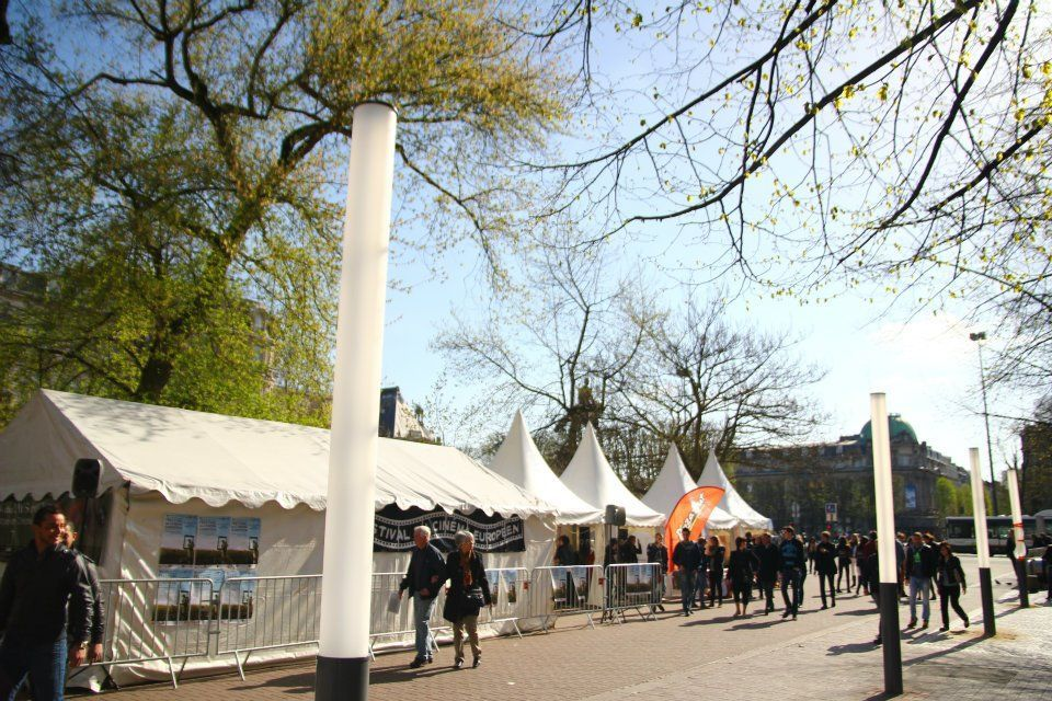 Village